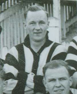 Photo of Phil Busbridge in 1942